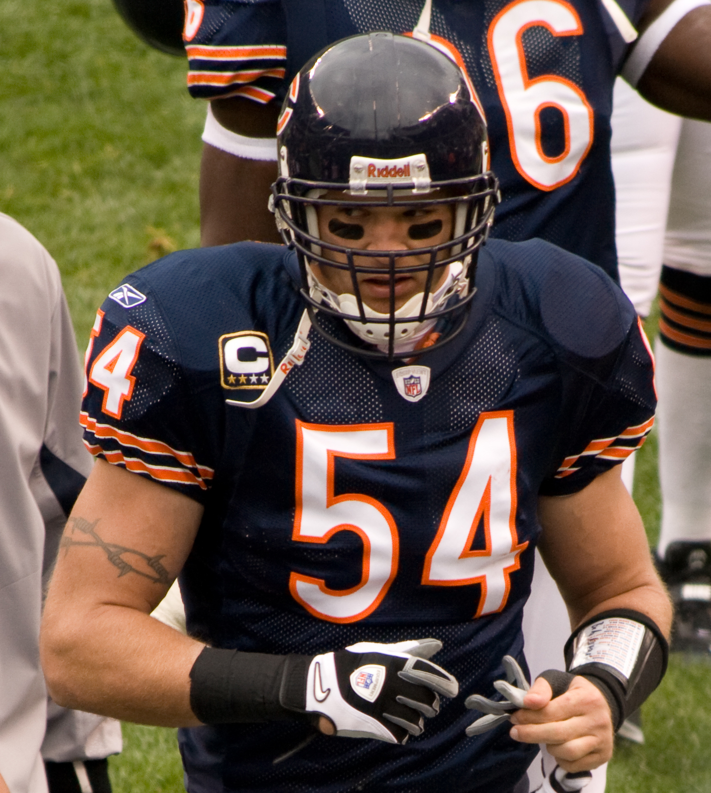 Brian Urlacher of the Chicago Bears